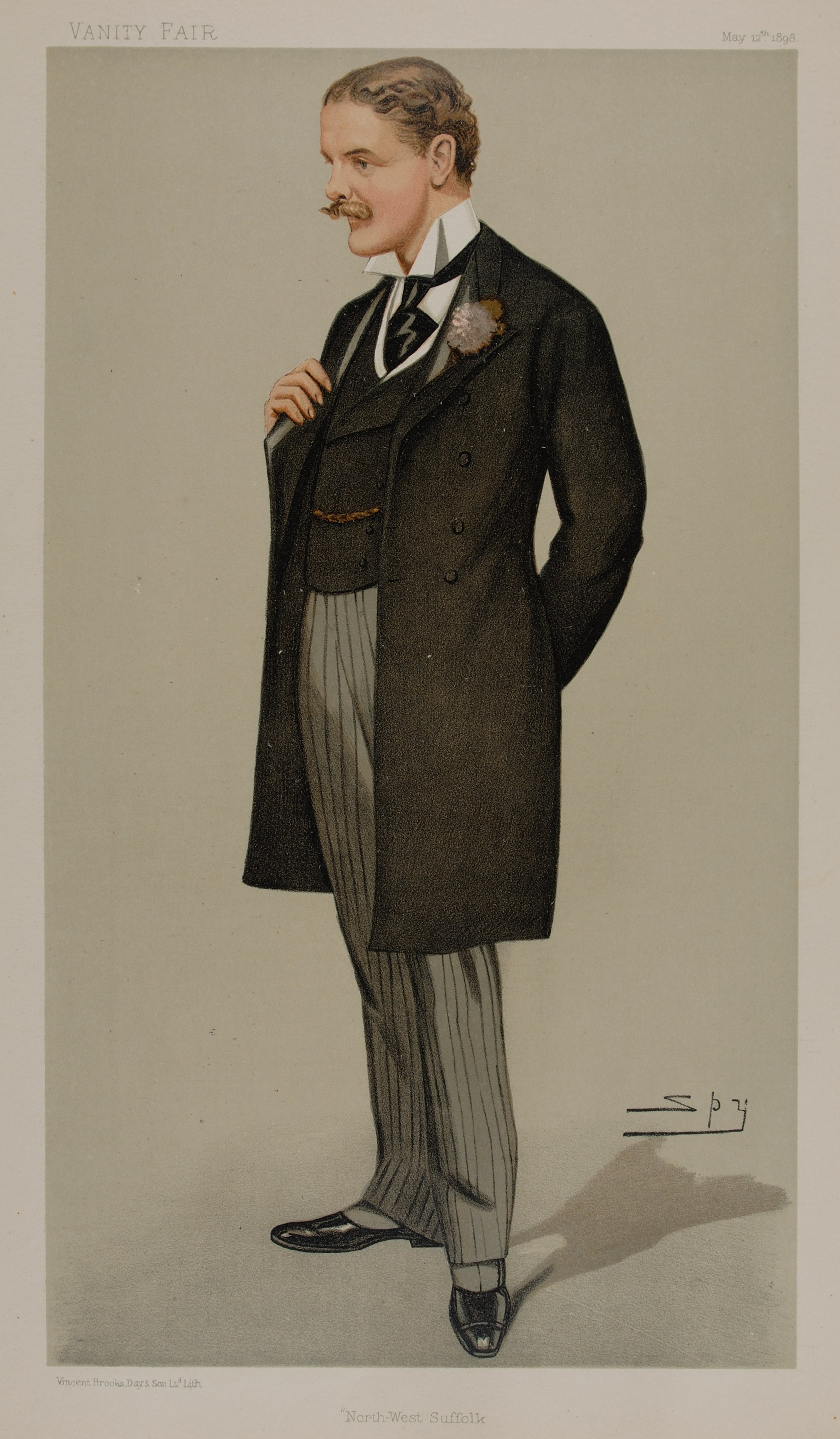 Statesmen No. 694: Caricature of Ian Zachary Malcolm, M.P.. Caption read "North West Suffolk".